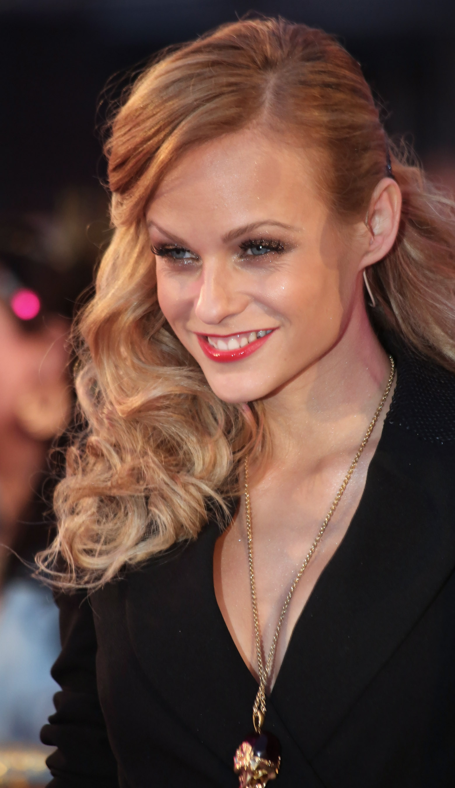 Mirjam Weichselbraun on the 'magenta carpet' at Life Ball 2013 at the square in front of the city hall of Vienna, Vienna, Austria.